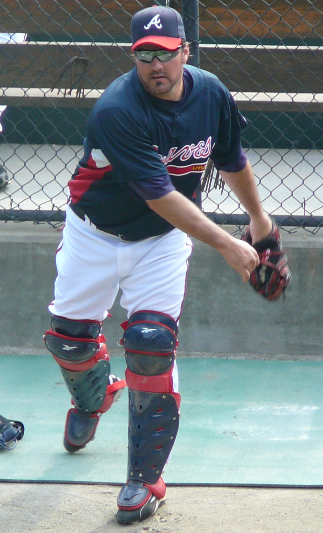 User:Chrisjnelson agreed to license this image of Corky_Miller.jpg under a free attribution license. Any use of this image must be attributed; this means that Photo by :en:User:Chrisjnelson|Chris Nelson should be in the picture caption. 21:33, 23 April 2008 . . Chrisjnelson . . 651×1,072 (638 KB)